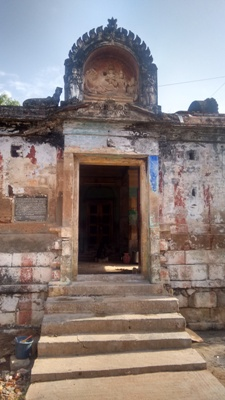 Tanjorenaganathaswamytemple தஞ்சாவூர் நாகநாதசுவாமி கோயில்